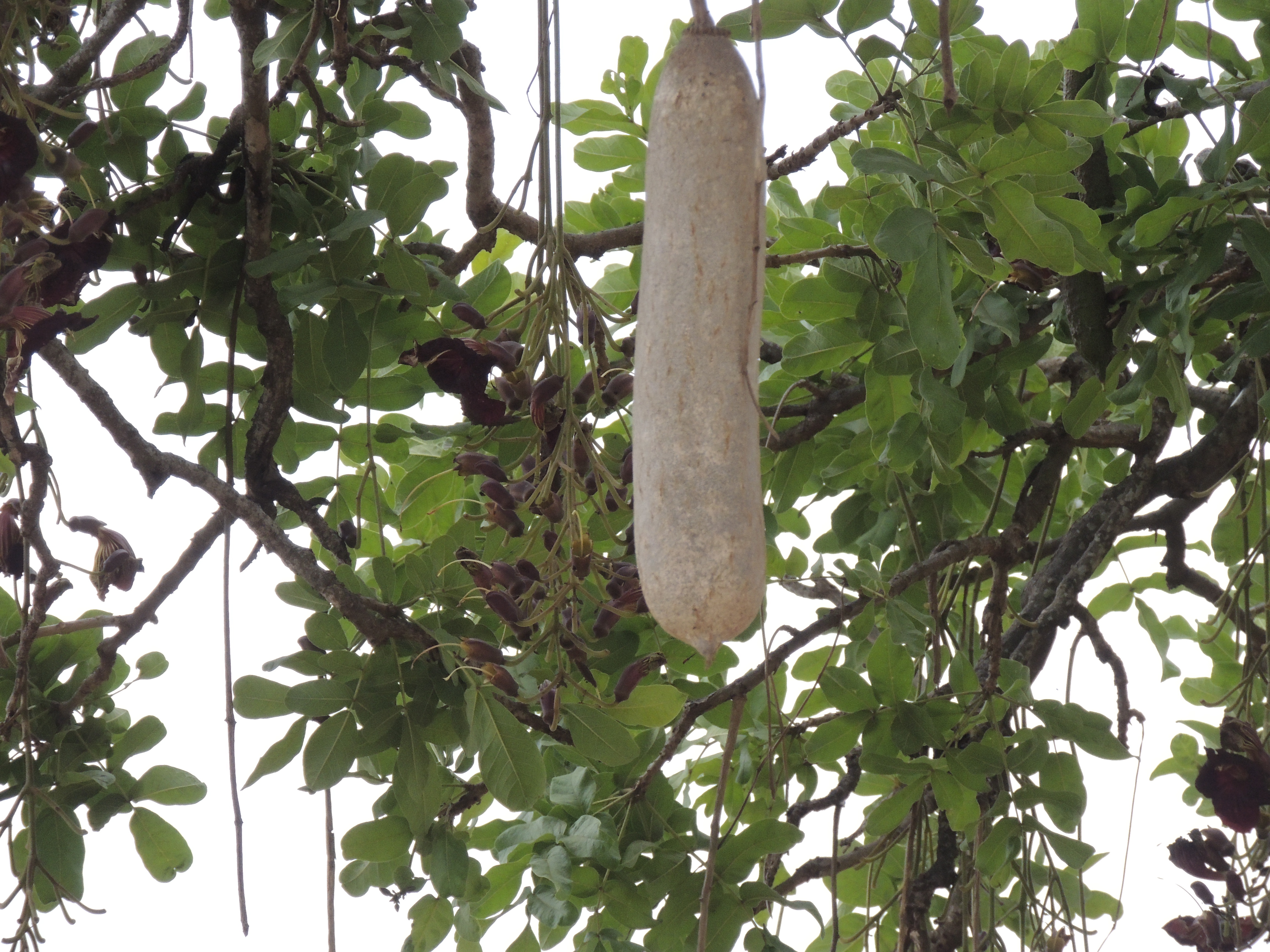 Kigelia africana - sausage tree, fruit